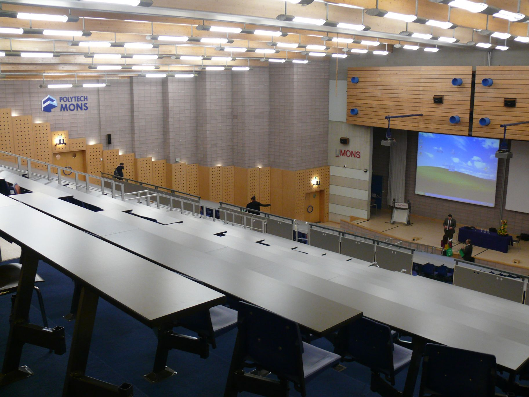 Amphitheatre of the Faculté polytechnique of Mons (Belgique).